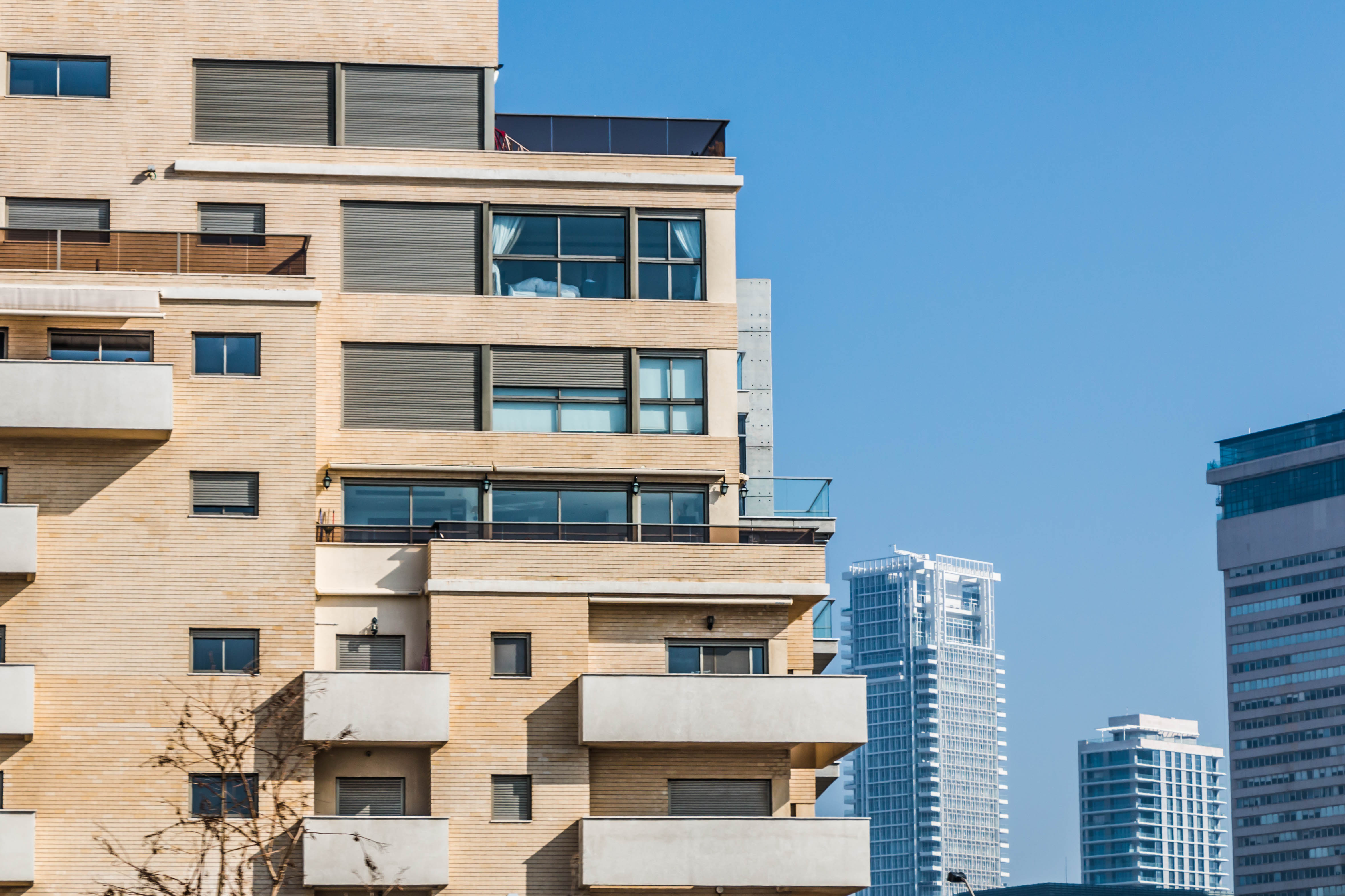 Buildings in Tel Aviv